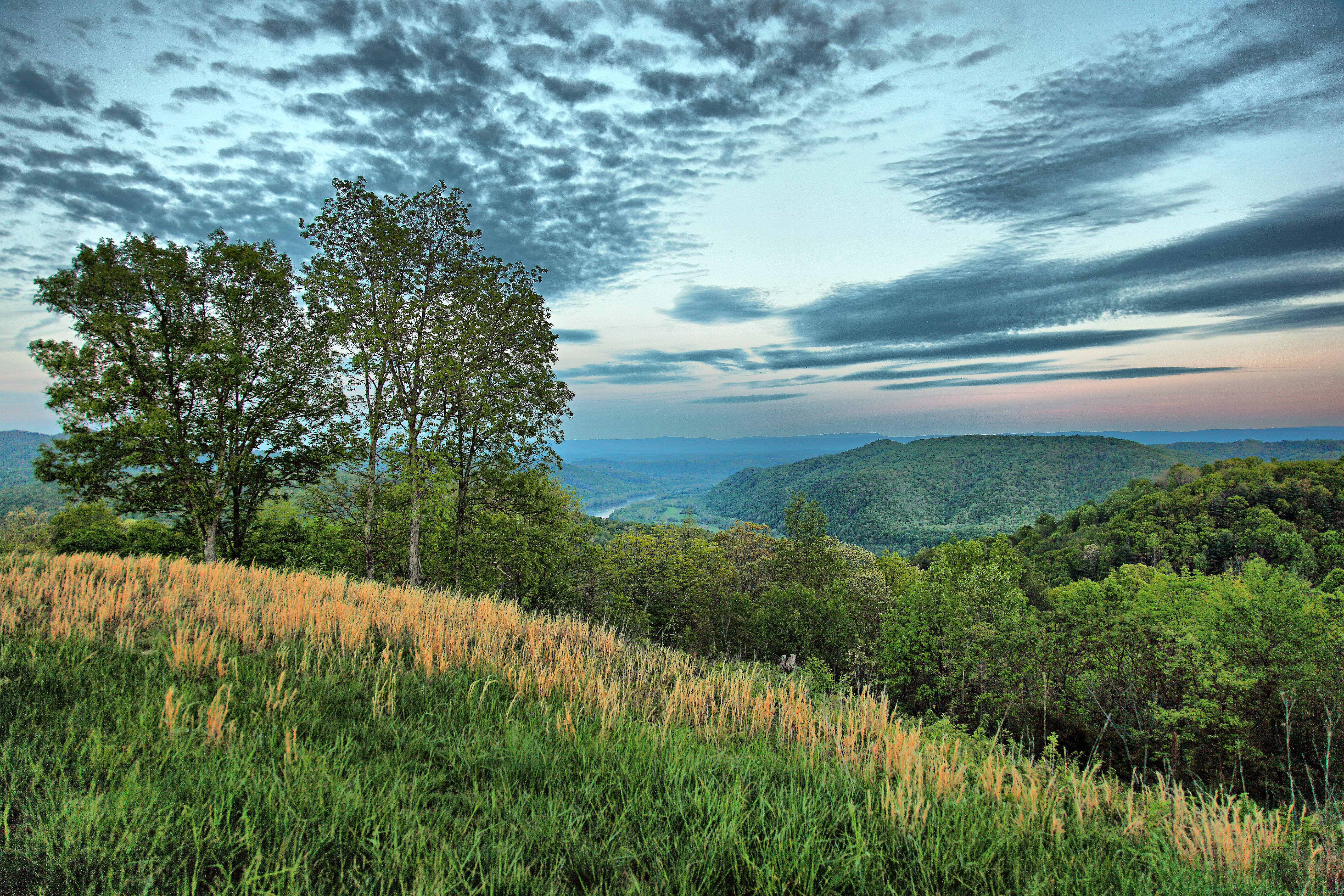 Bluestone Valley View